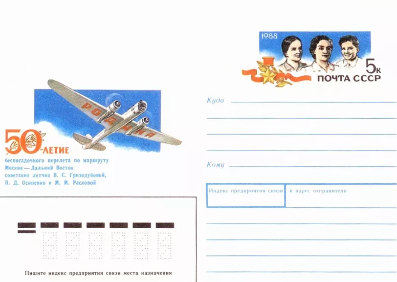 Envelope featuring Valentina Grizodubova, Polina Osipenko, and Marina Raskova, the first female Heroes of the Soviet Union